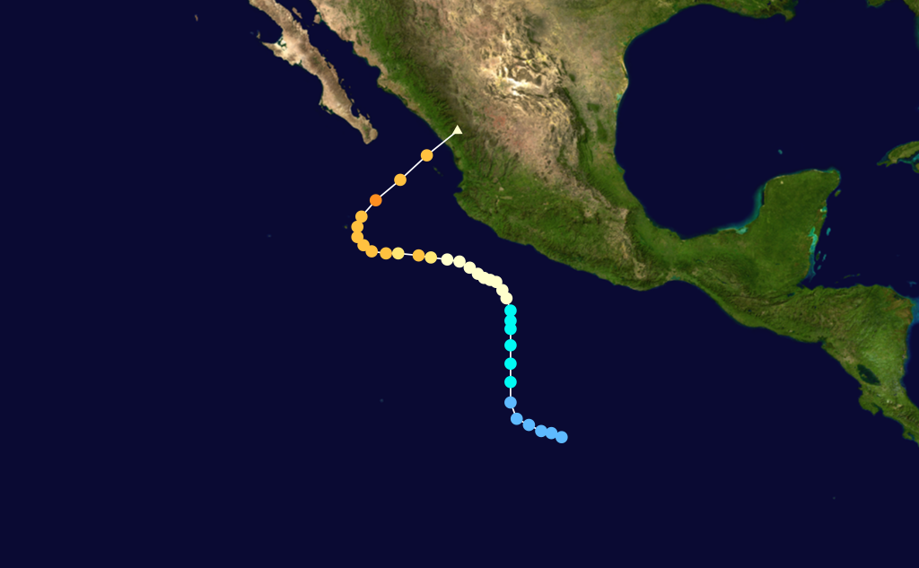 Hurricane Tico (1983) track. Uses the color scheme from the Saffir-Simpson Hurricane Scale.